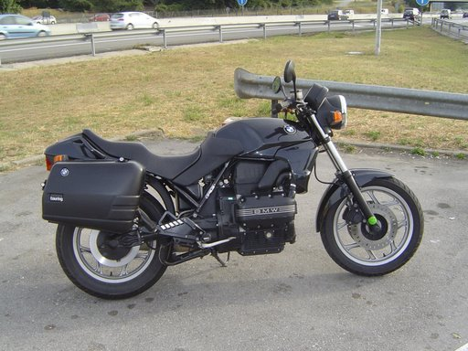 K75 Base Lateral view right 1993